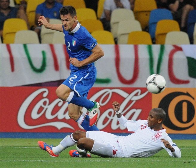 Christian Maggio and Ashley Young at Euro 2012 match England-Italy